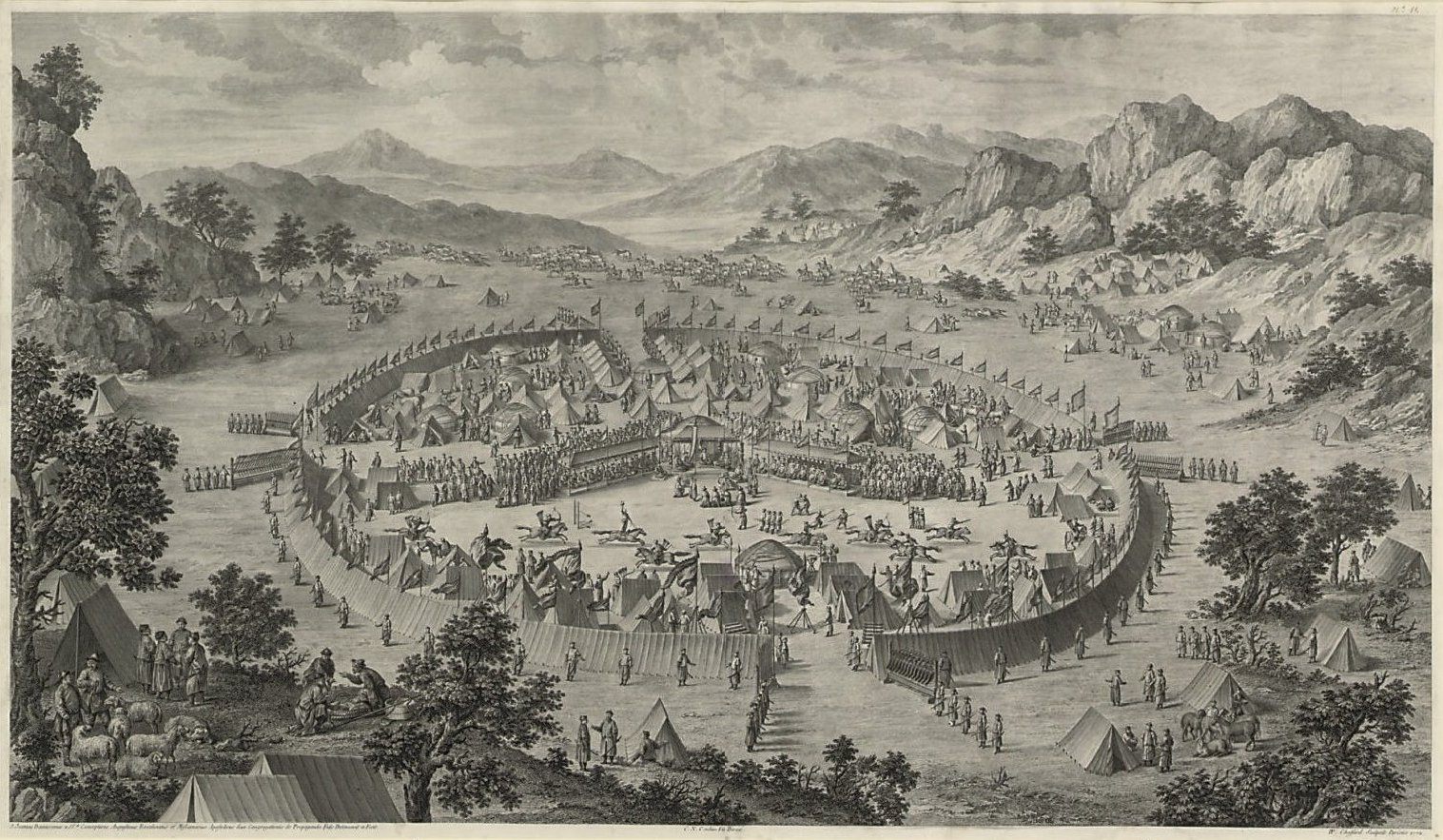 "The Khan of Badakhsan Asks to Surrender" Drawn by Damasceno; engraved by Pierre Philippe Choffard, 1772 (13th of the 16 copperplates commisionned for Les Conquêtes de L'Empereur de la Chine).